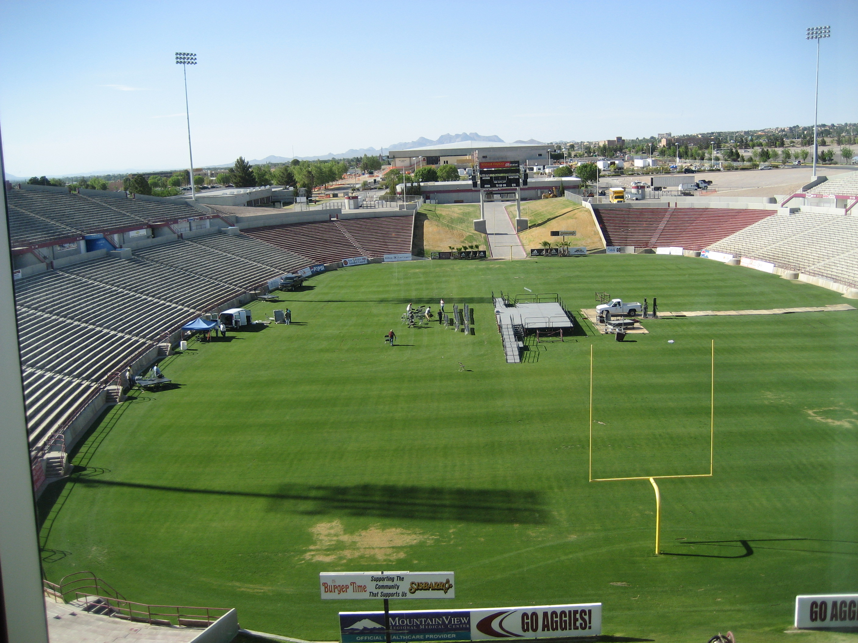 Picture taken on May 11th 2006, of the Aggie Memorial Stadium, at New Mexico State University.